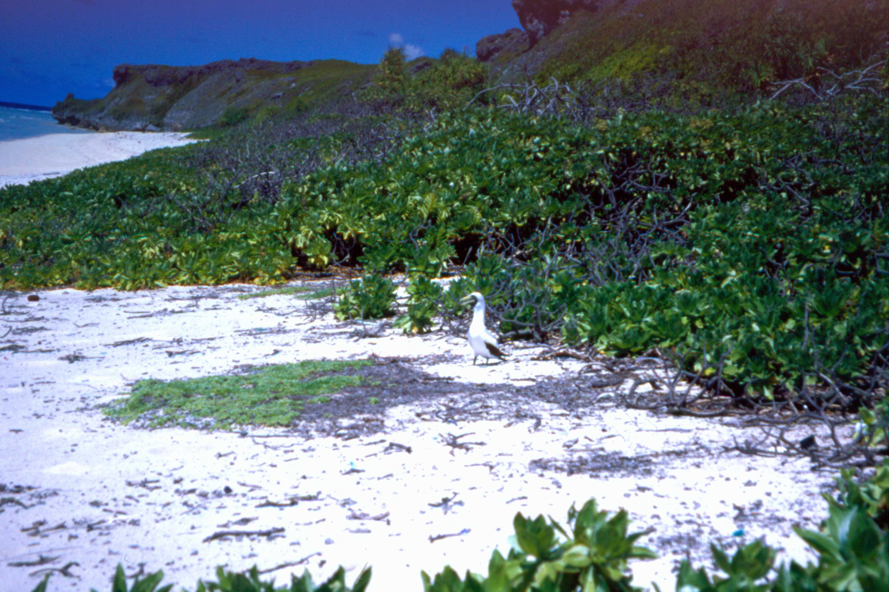 West coast beach of Henderson Island, Pitcairn Islands